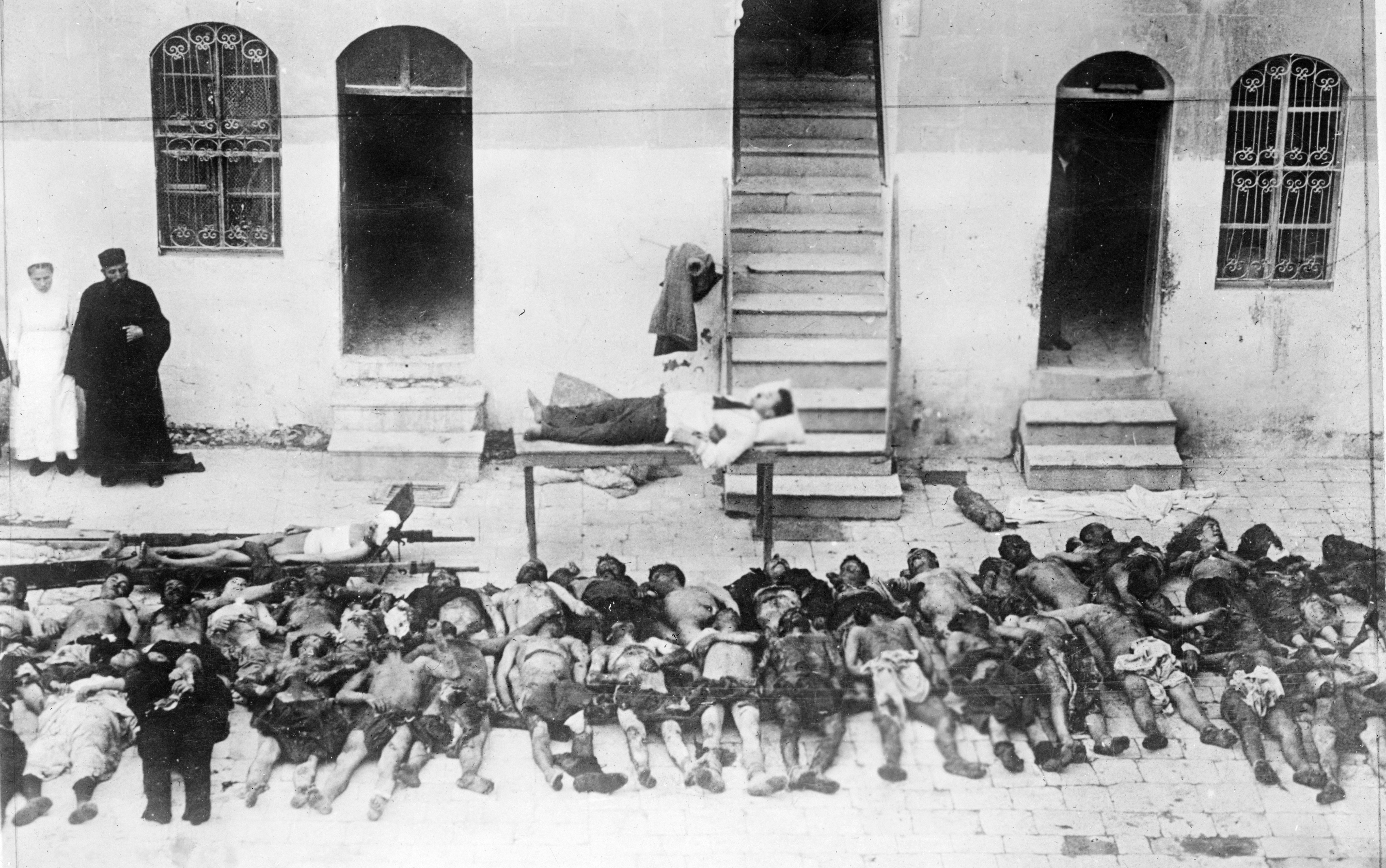 "This picture shows that the Turks, in the remote districts of Aisa Monor [i.e. Asia Minor] beyond the reach of the protecting hand of the Allies, have continued their policy of the slaughter of the Armenian Christians after the signing of the armistice. The massacre of the forty shown in the picture, which has just been received in this country, occurred in February 1919."